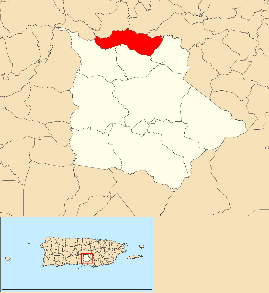 Hayales, Coamo, Puerto Rico, locator map